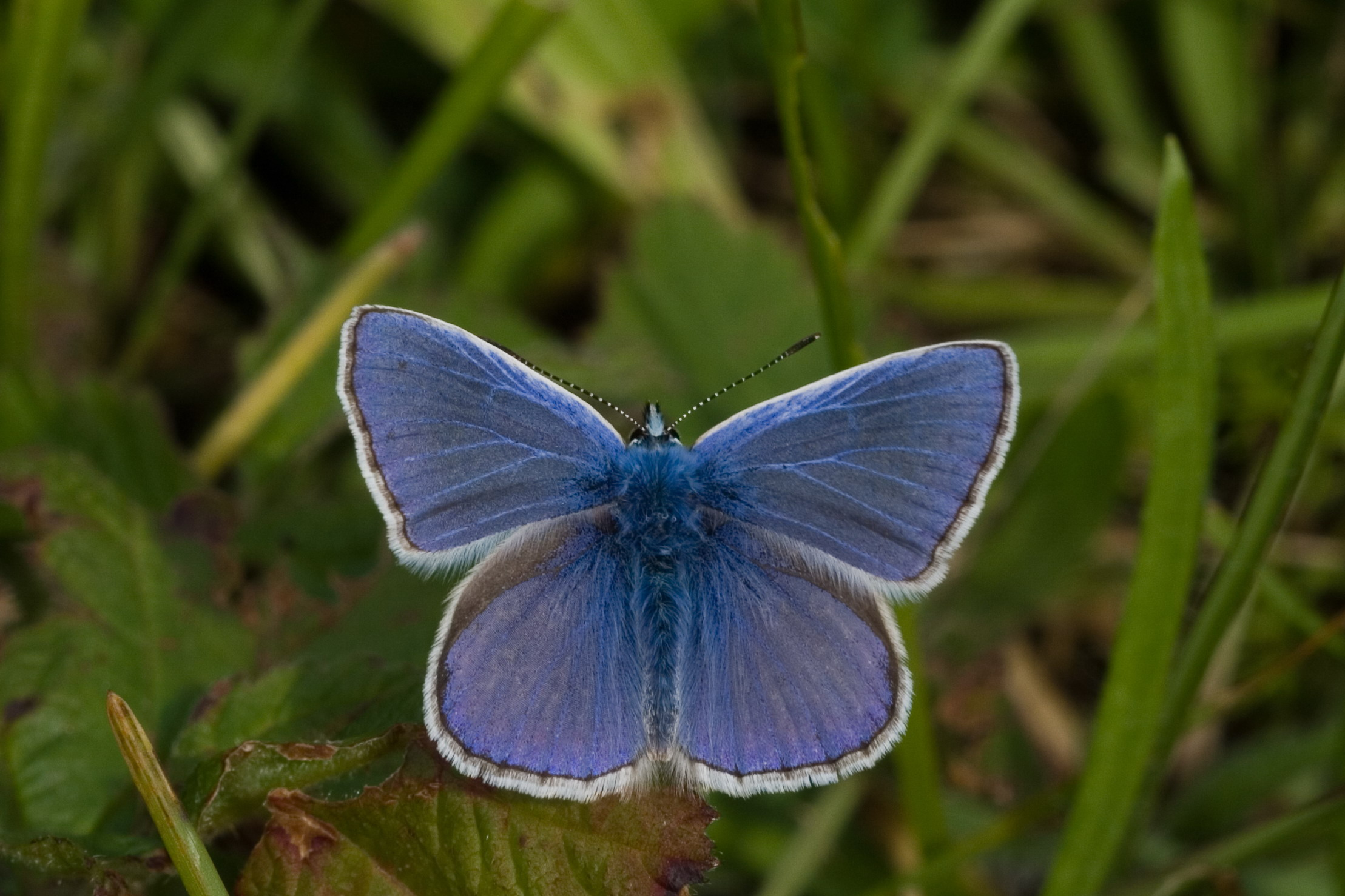 Polyommatus icarus